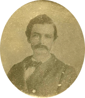 Edward Herbert Armistead (1839-1864); During the Civil War, Armistead served as a lieutenant colonel of the 22nd Alabama Infantry, C.S.A., Alabama Department of Archives and History